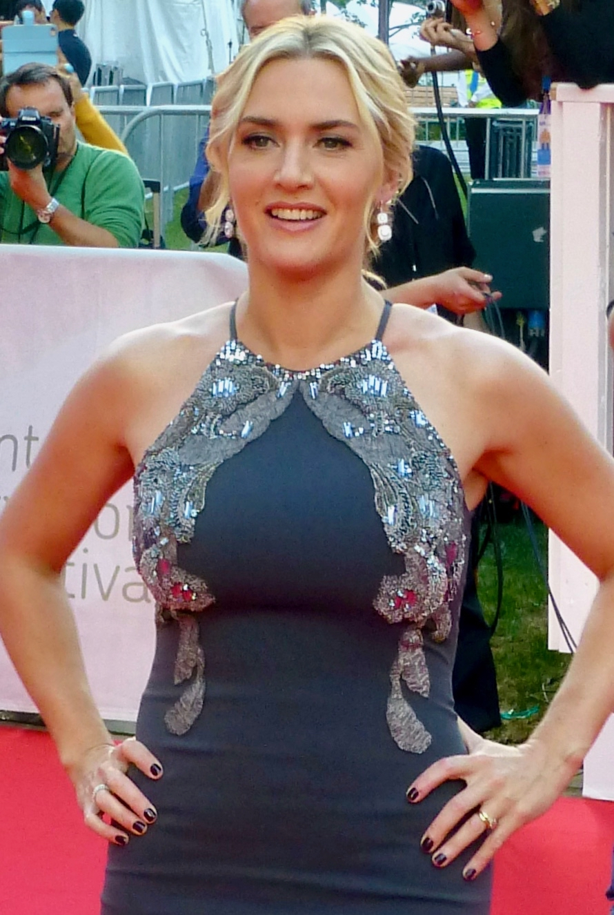 Kate Winslet at The Dressmaker event TIFF